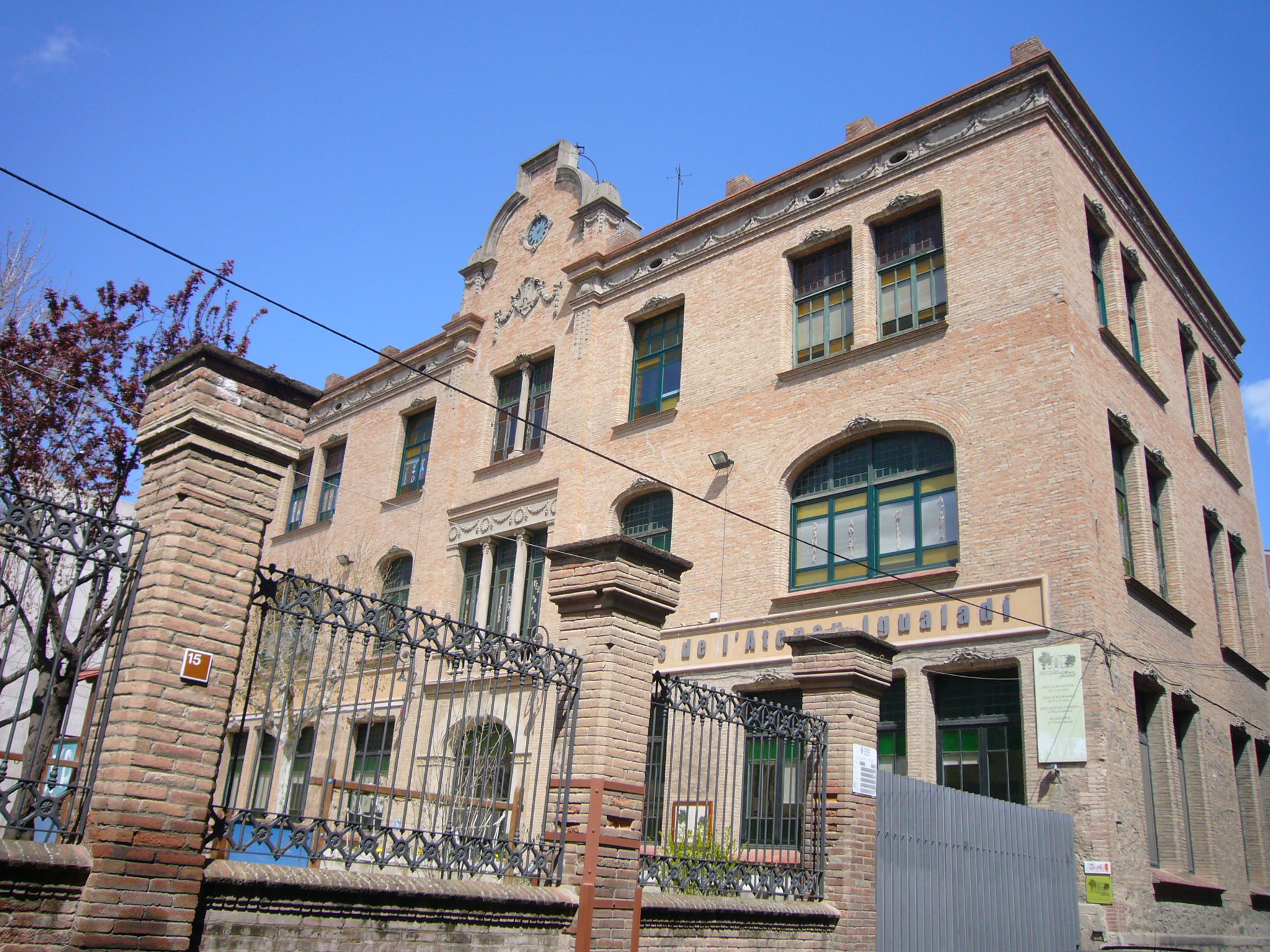 Escoles de l'Ateneu Igualadí, Igualada, Catalonia. Architect Josep Pausas i Coll (1919)